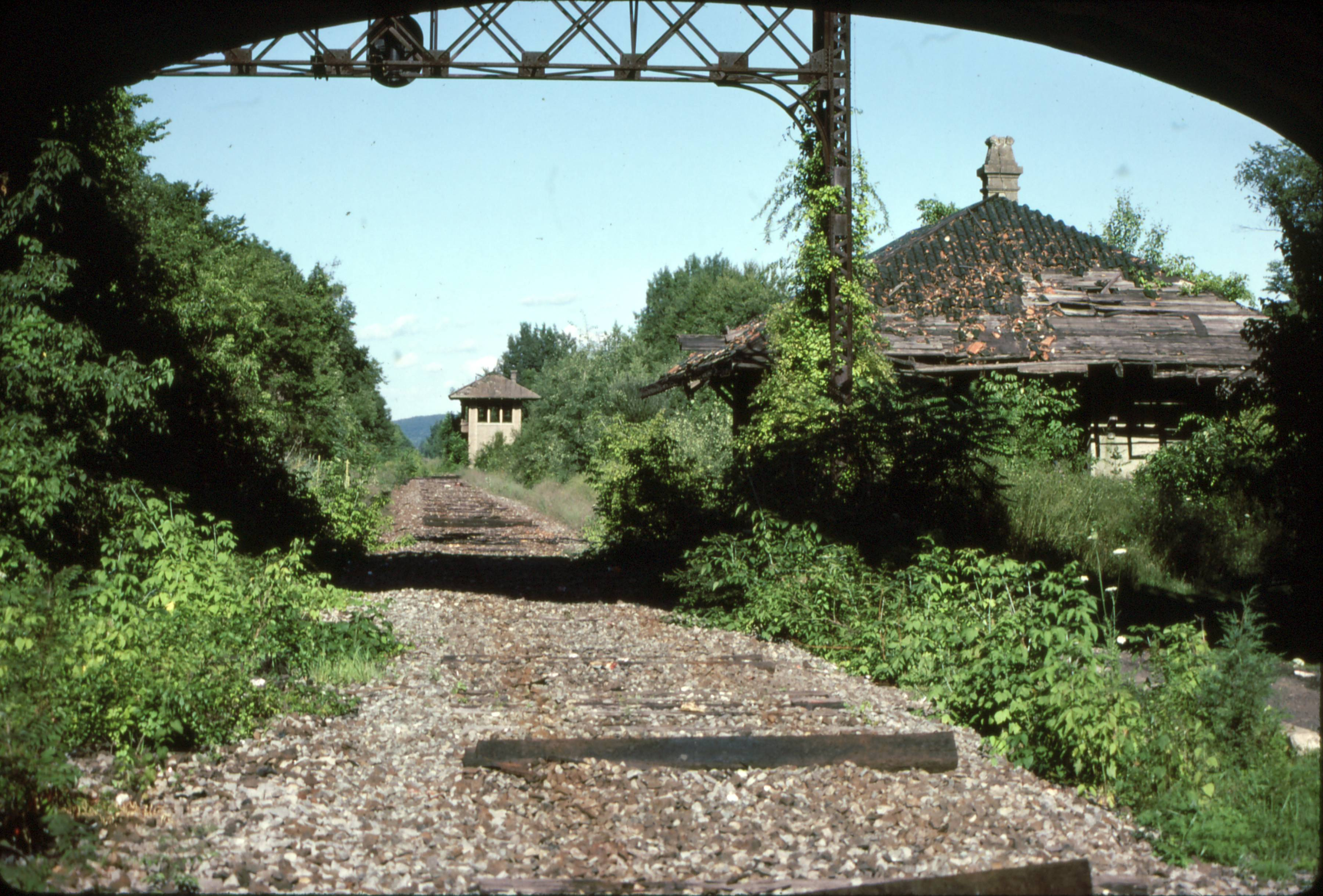 Greendell station and interlocking tower, Green Township, New Jersey, on the abandoned Lackawanna Cutoff line of the Delaware, Lackawanna and Western Railroad. Tower closed in 1938.